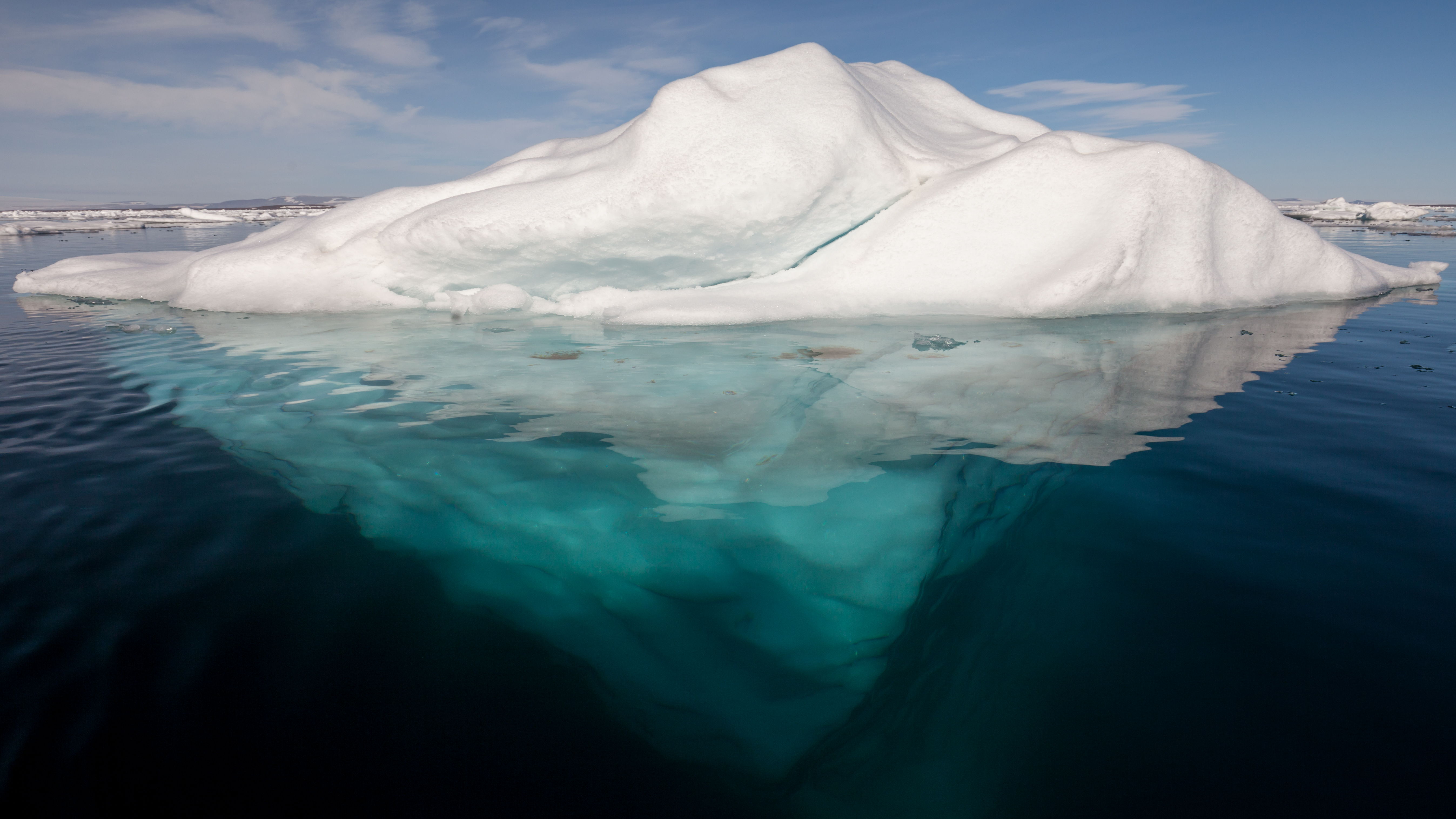 When the sea is calm, the underside of icebergs can easily be observed in the clear polar water.